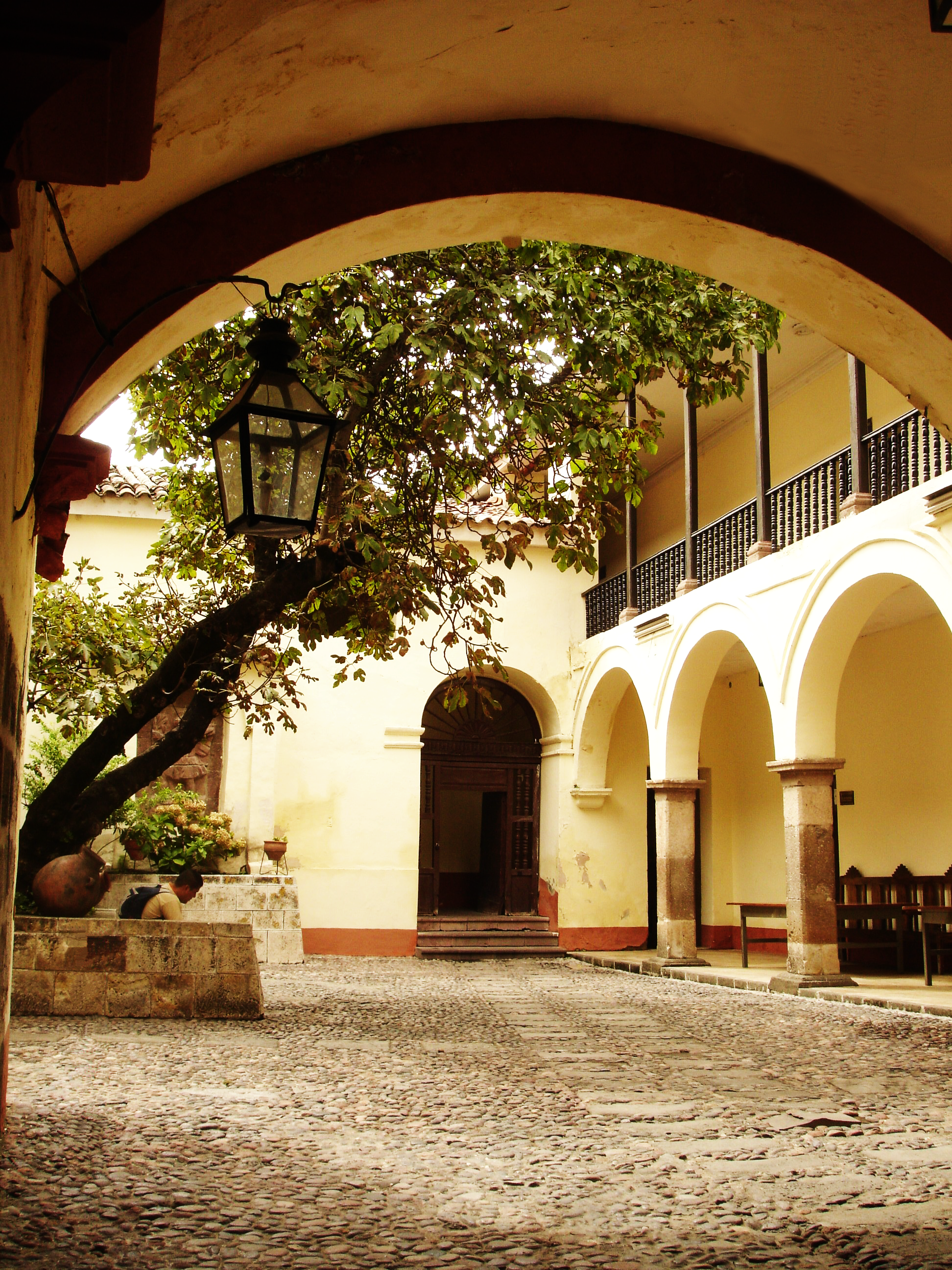 Old House of Ayacucho, Perú.